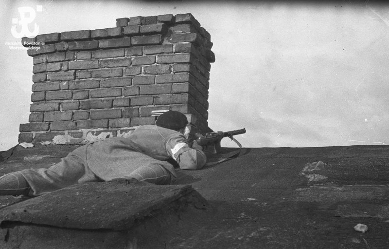 A Polish insurgent from the "Pięść" Battalion of the Armia Krajowa, led by Stanisław Jankowski "Agaton", on a rooftop overlooking the Ewangelicki cemetery in the Wola district of Warsaw on 2nd August 1944.